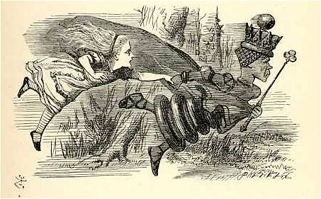 The Red Queen's race